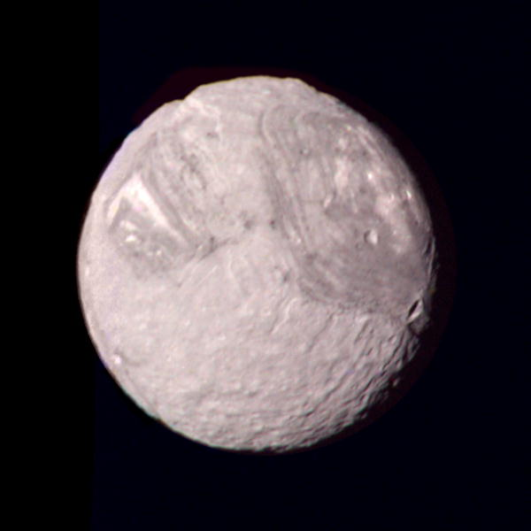 This color composite of the Uranian satellite Miranda was taken by Voyager 2 on Jan. 24, 1986, from a distance of 147,000 kilometers (91,000 miles). This picture was constructed from images taken through the narrow-angle camera's green, violet and ultraviolet filters. It is the best color view of Miranda returned by Voyager. Miranda, just 480 km (300 mi) across, is the smallest of Uranus' five major satellites. Miranda's regional geologic provinces show very well in this view of the southern hemisphere, imaged at a resolution of 2.7 km (1.7 mi). The dark- and bright-banded region with its curvilinear traces covers about half of the image. Higher-resolution pictures taken later show many fault valleys and ridges parallel to these bands. Near the terminator (at right), another system of ridges and valleys abuts the banded terrain; many impact craters pockmark the surface in this region. The largest of these are about 30 km (20 mi) in diameter; many more lie in the range of 5 to 10 km (3 to 6 mi) in diameter.